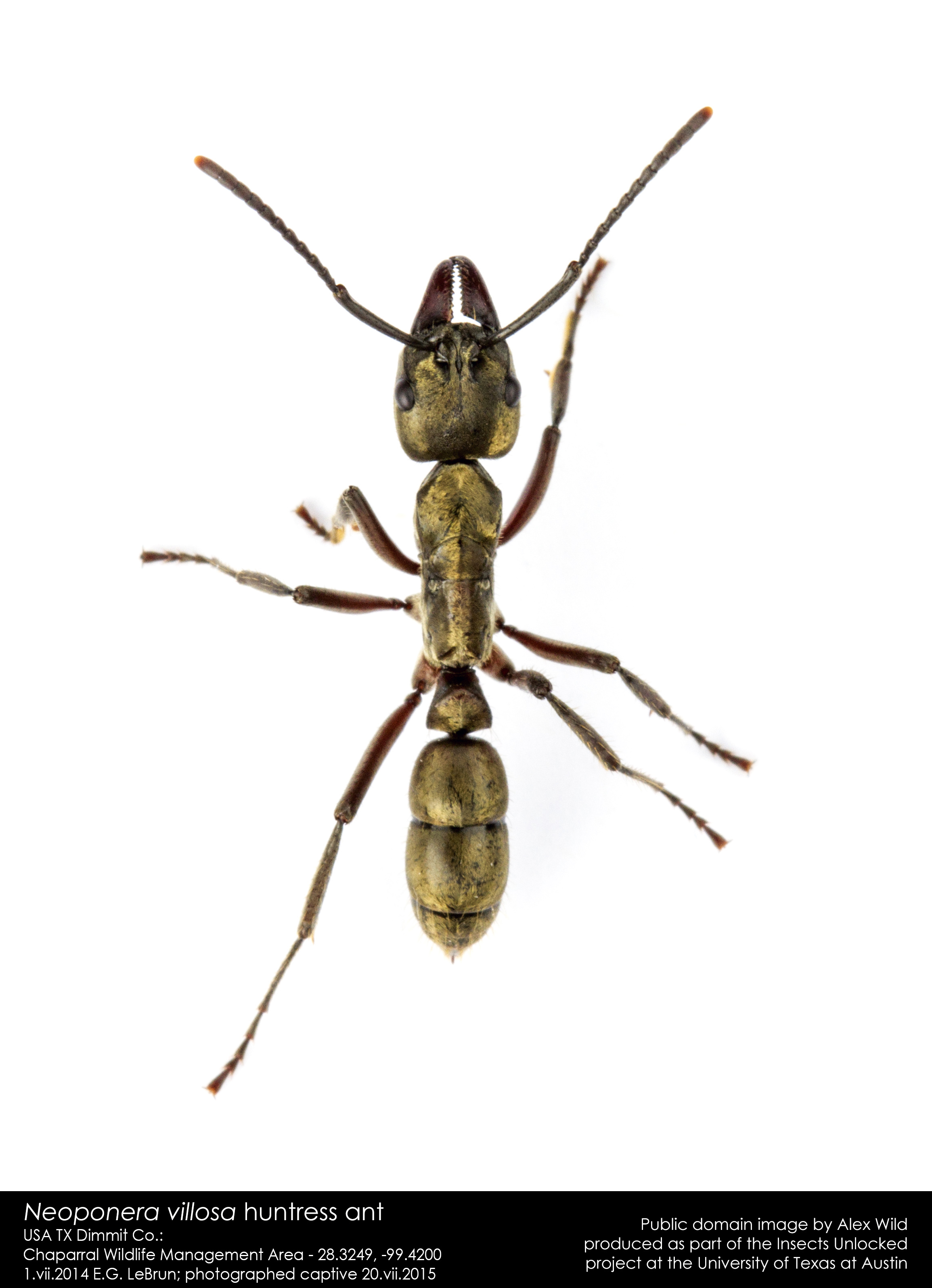 Portrait of a worker huntress ant in mid-stride. Chaparral Wildlife Management Area Dimmit County Texas USA, -99.4200. 1 July 2014, E.G. LeBrun, Coll. Public domain image by Alex Wild, produced as part of the Insects Unlocked project at the University of Texas at Austin.